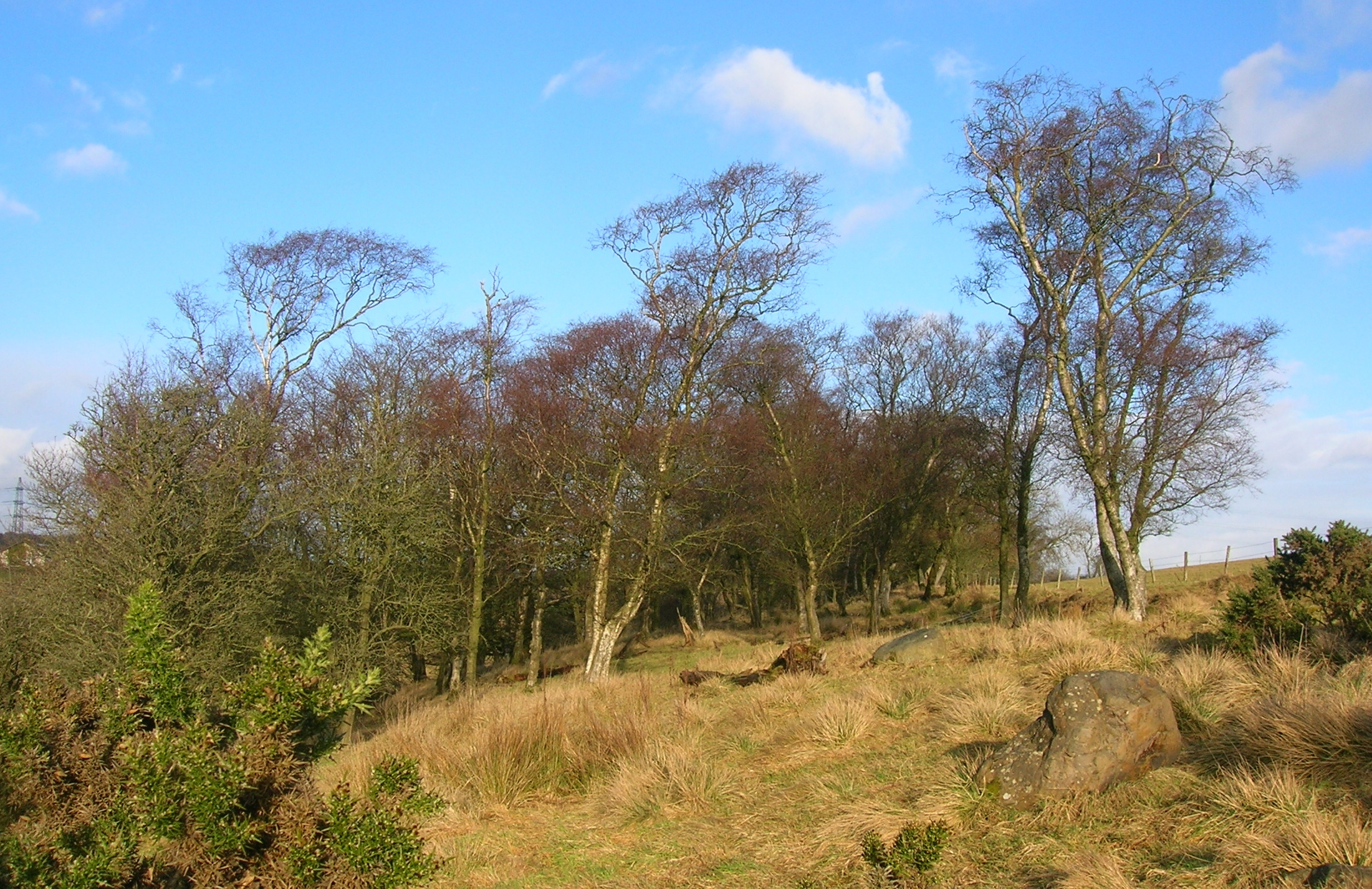 Doura Woods at the old coal mines, Doura, North Ayrshire, Scotland.